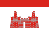 Mozhaisk (Moscow oblast), flag